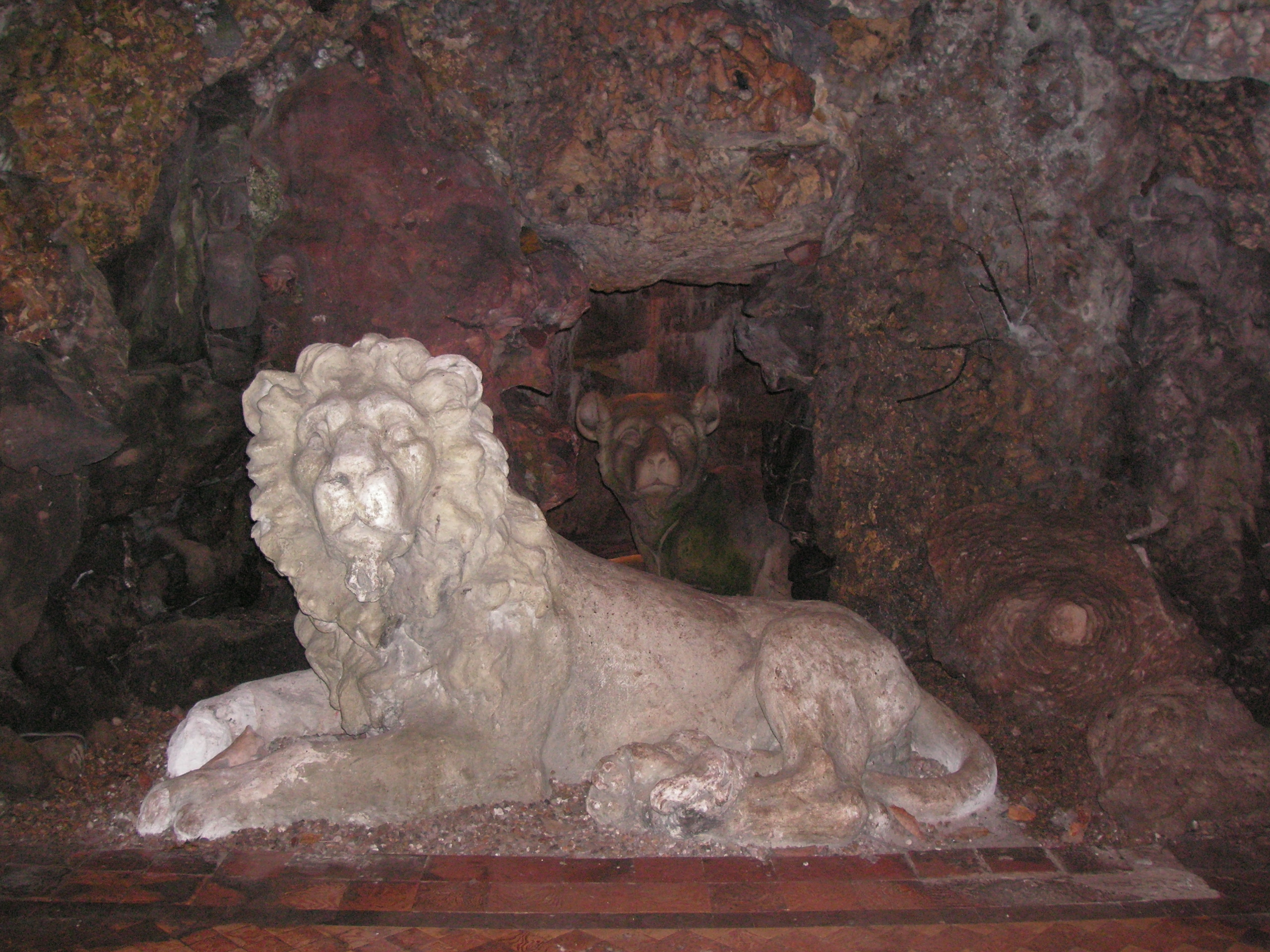 A statue in Goldney Hall, Bristol